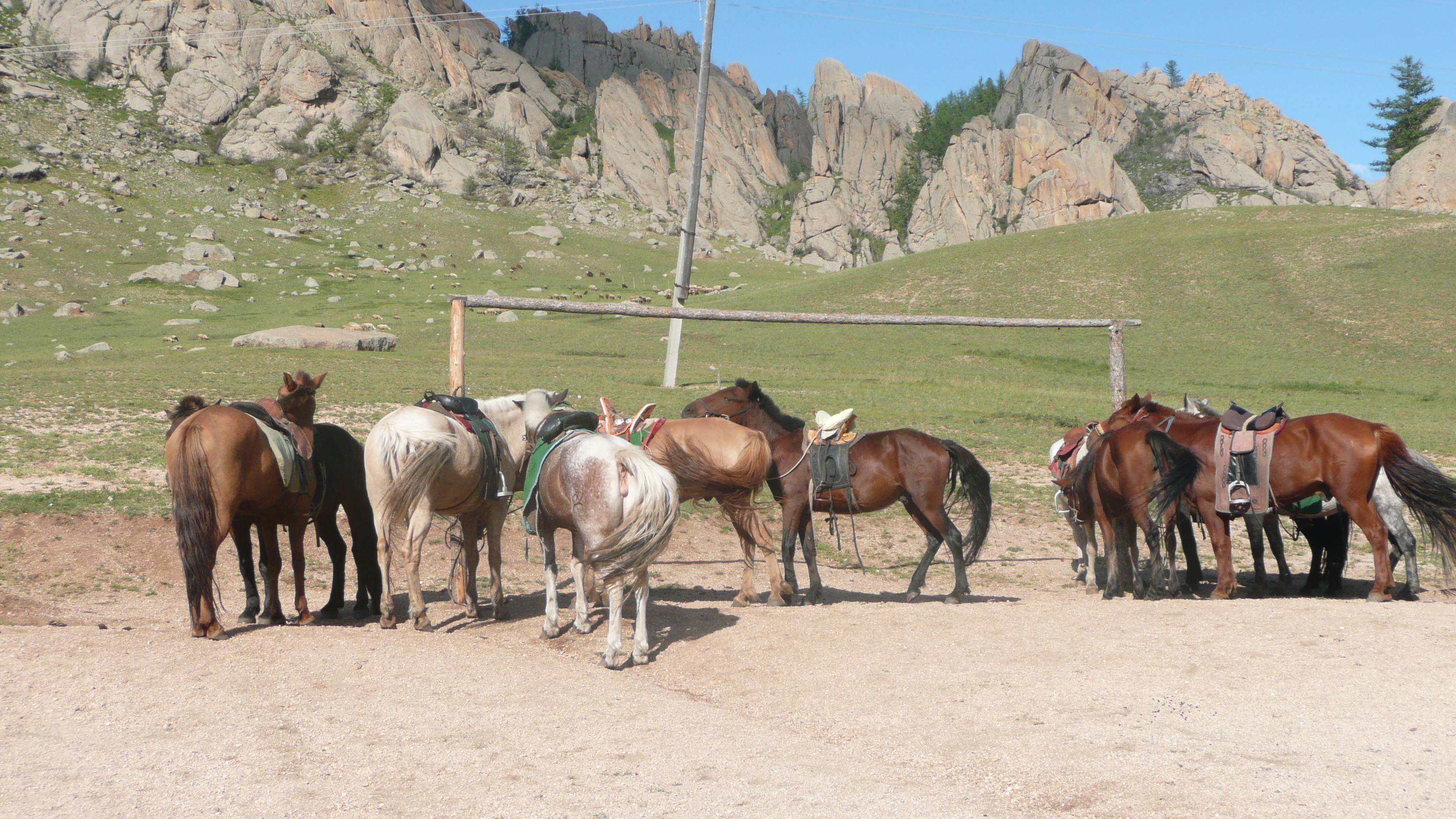 Mongolian horses